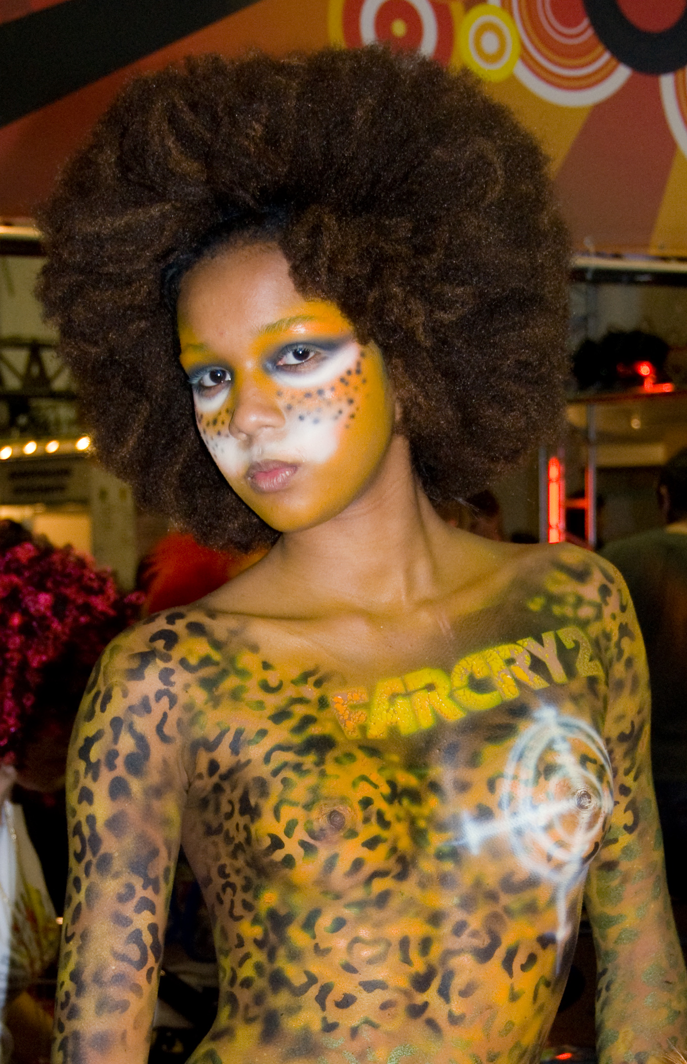 Far Cry 2 girl on Igromir 2008